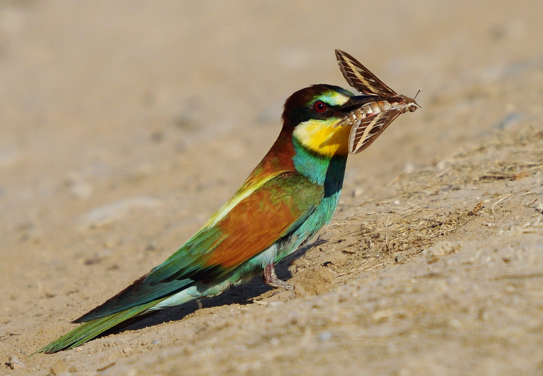 Bee-eater